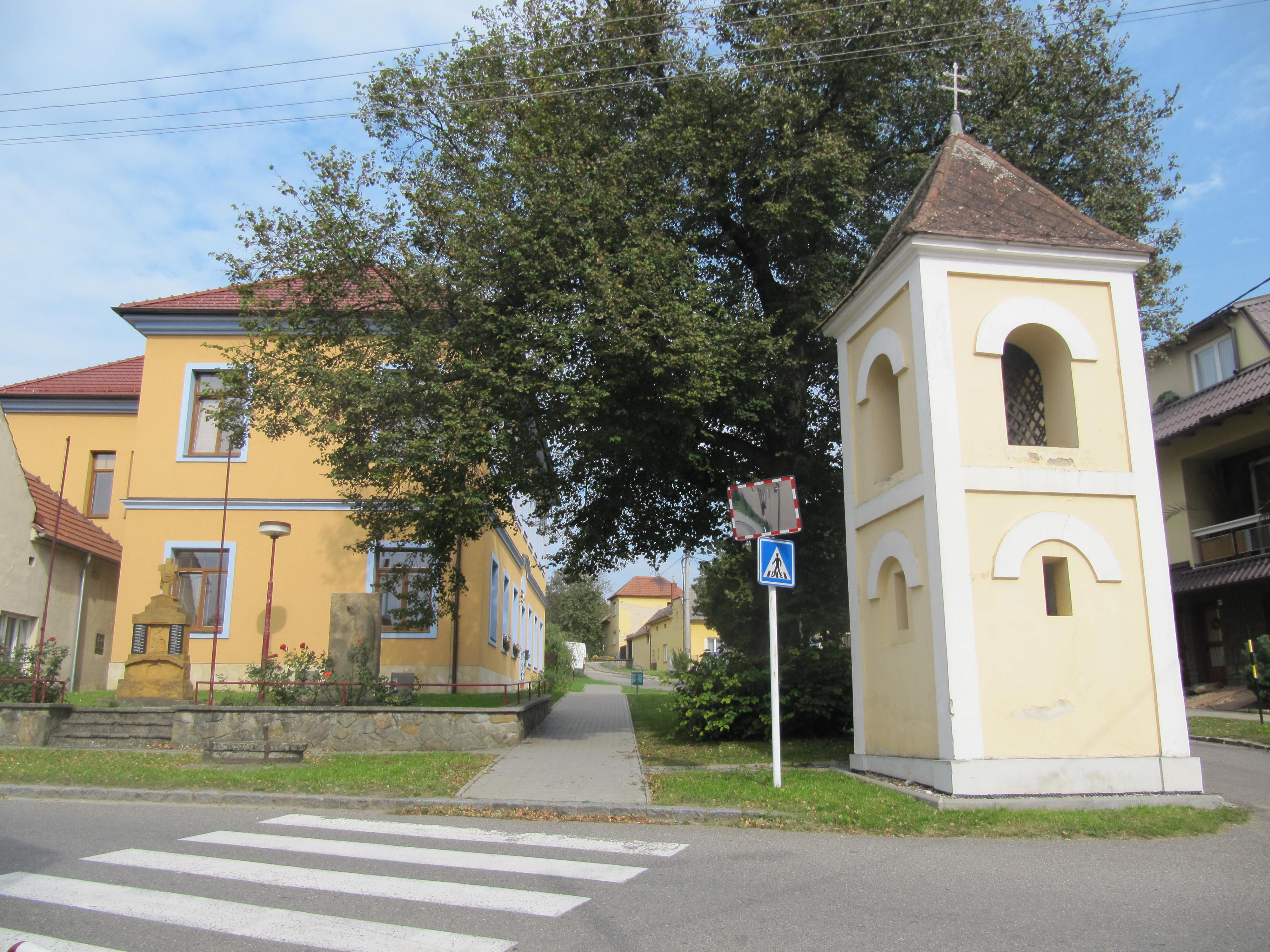 Uherské Hradiště, part Vésky, Czech Republic. Belfry.